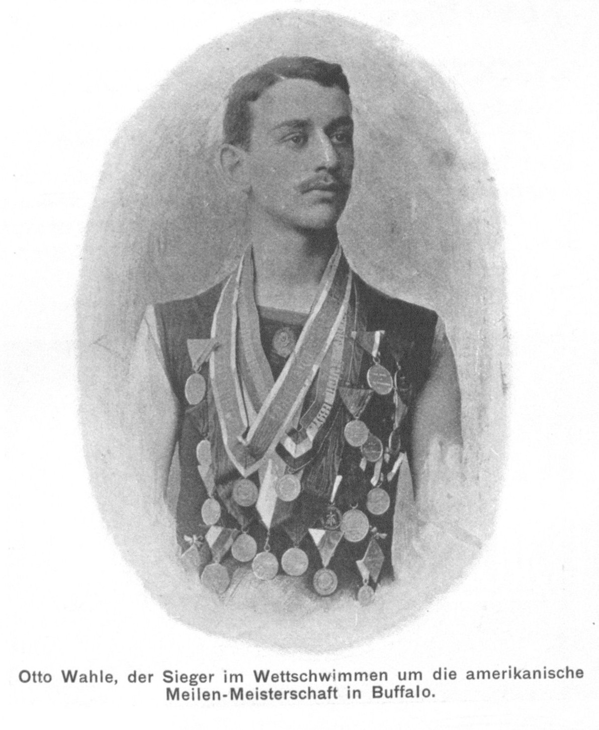 Portrait of Otto Wahle (1879-1963), Austrian swimmer.